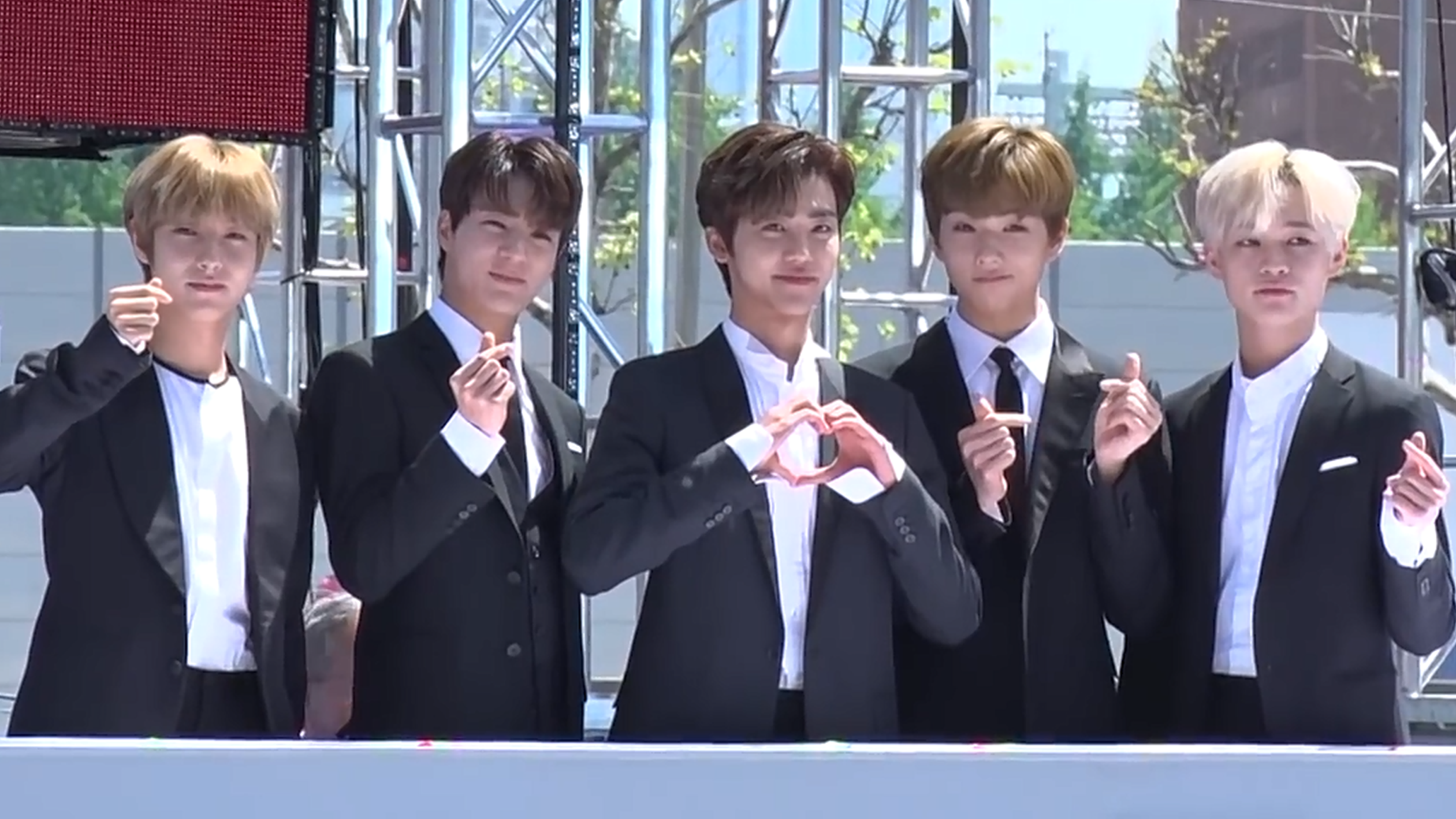 NCT Dream during the opening ceremony of the 'C-Festival 2019' held at COEX in Samsung-dong, Gangnam-gu, Seoul, on May 2, 2019. (L-R: Renjun, Jeno, Jaemin, Jisung, and Chenle.)